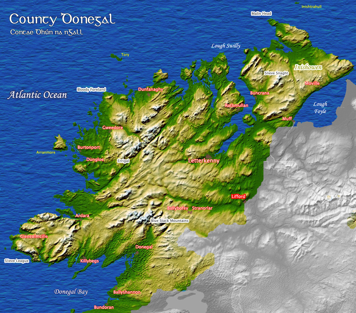 County Donegal 3d map Creator: Kanchelskis